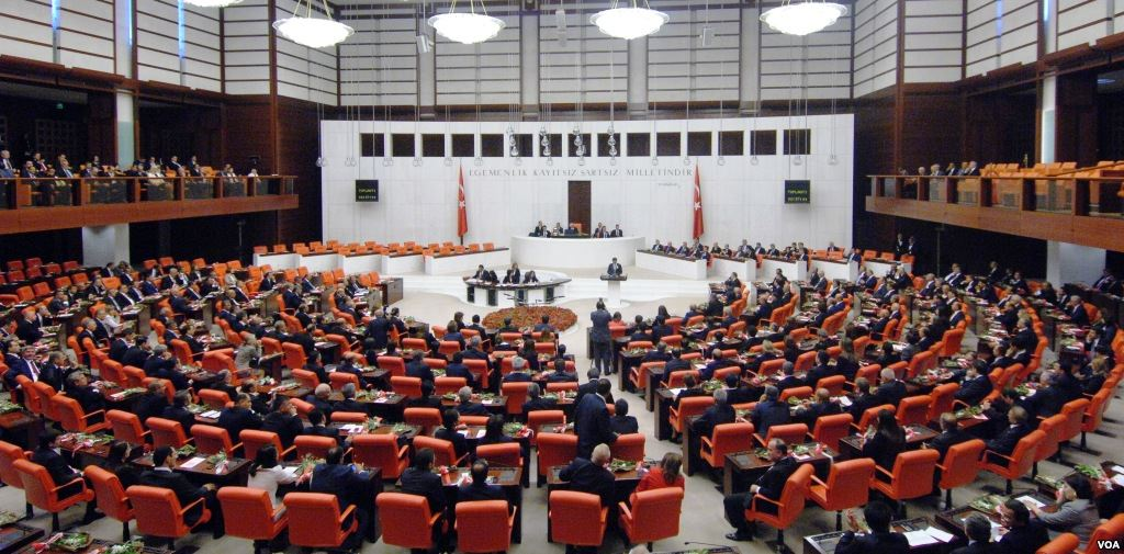 Grand National Assembly of Turkey MPs in June 2015